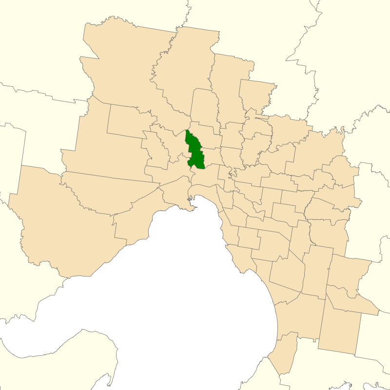 Location of the Victorian electoral district of Essendon (dark green) in the Greater Melbourne area.